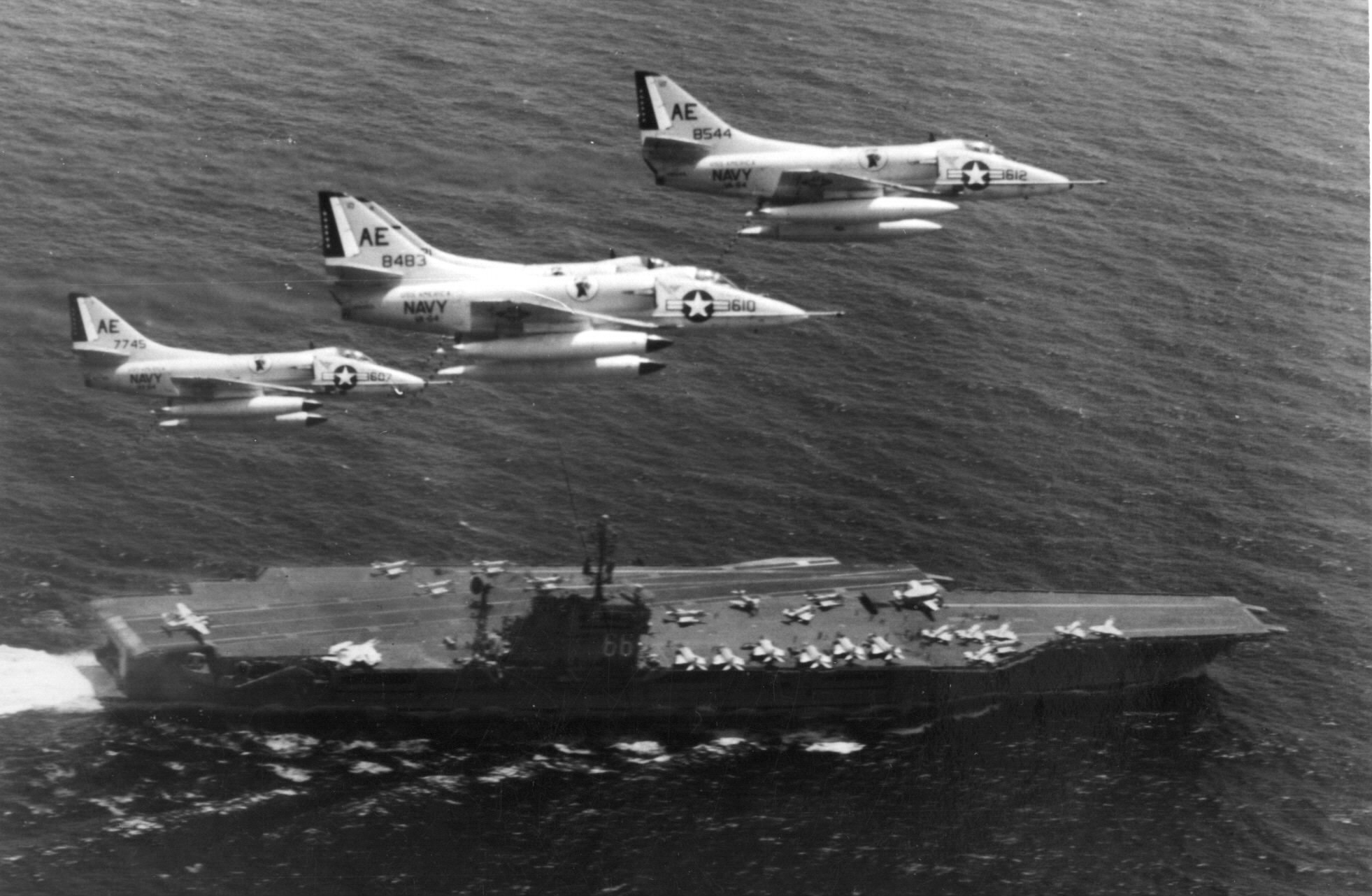 Four U.S. Navy Douglas A-4C Skyhawks of Attack Squadron 64 (VA-64) "Black Lancers" fly over the aircraft carrier USS America (CVA-66). VA-64 was assigned to Attack Carrier Air Wing 6 (CVW-6) aboard the America from 1965 to 1967.